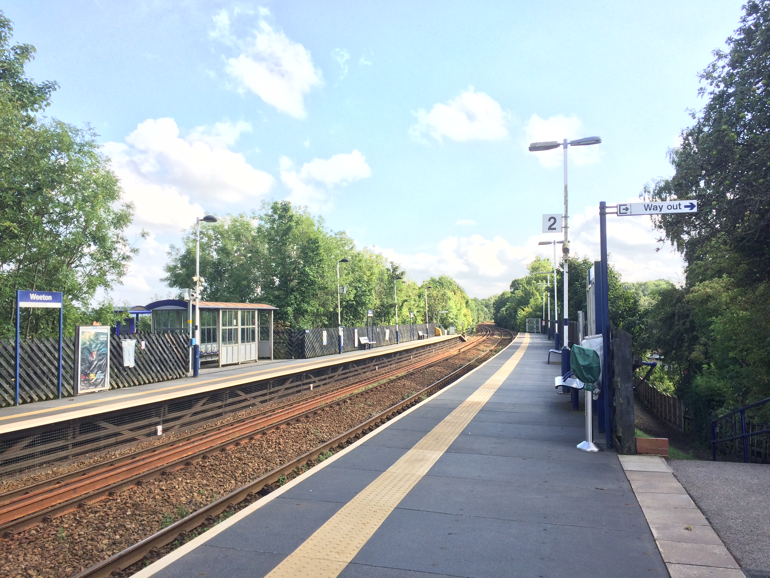 Weeton railway station, platform 2, August 2020